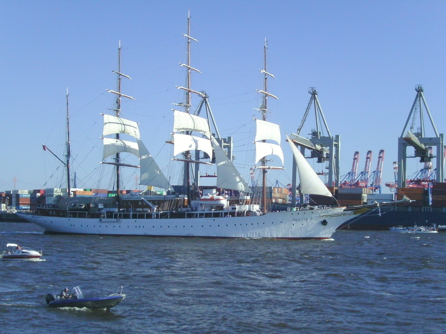 The sailing ship Sea Cloud in the port of Hamburg